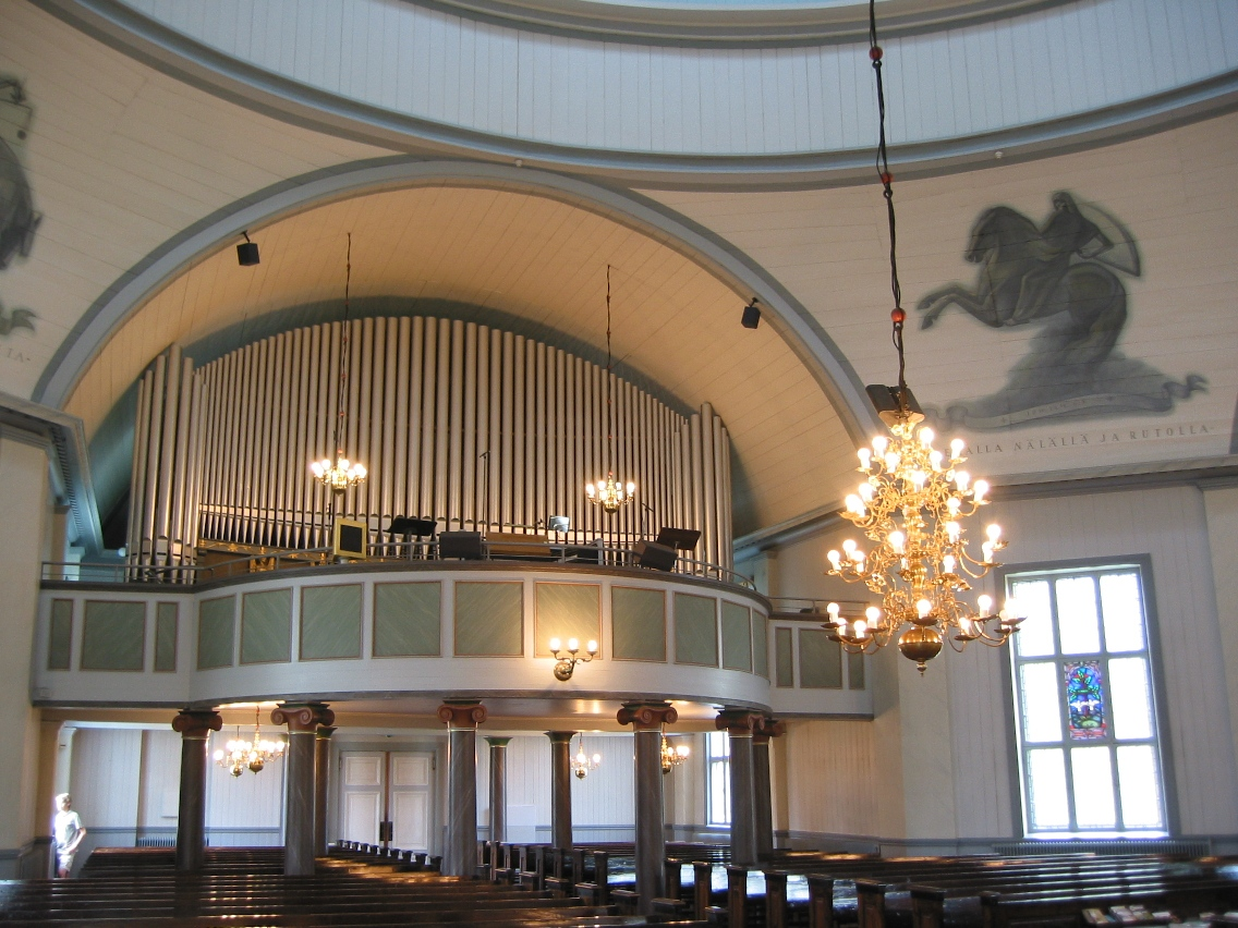 Organs of the Lapua Cathedral in Lapua, Finland